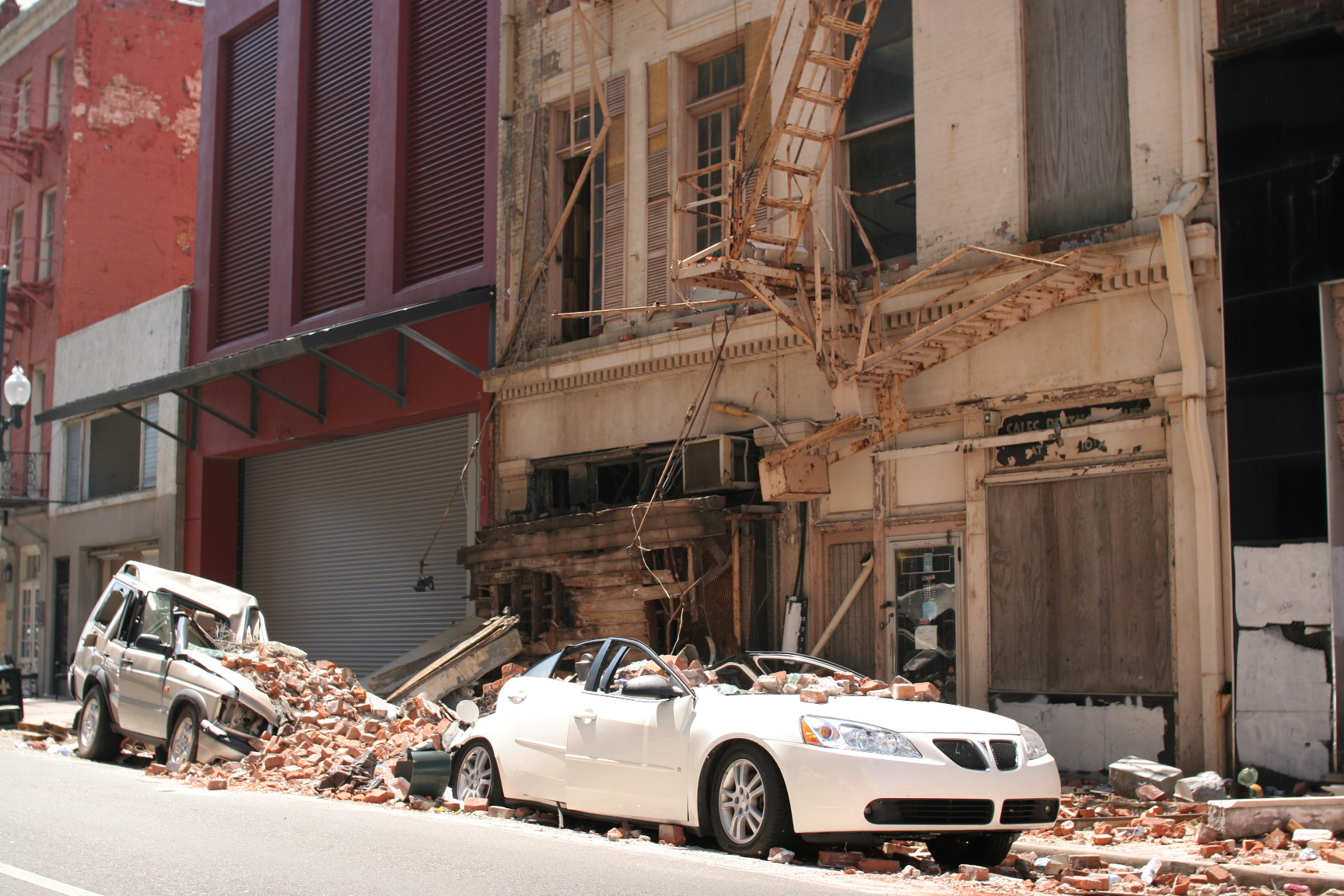 Devastation from Katrina. Wind damage collapsed brick building on to cars, New Orleans Central Business District.